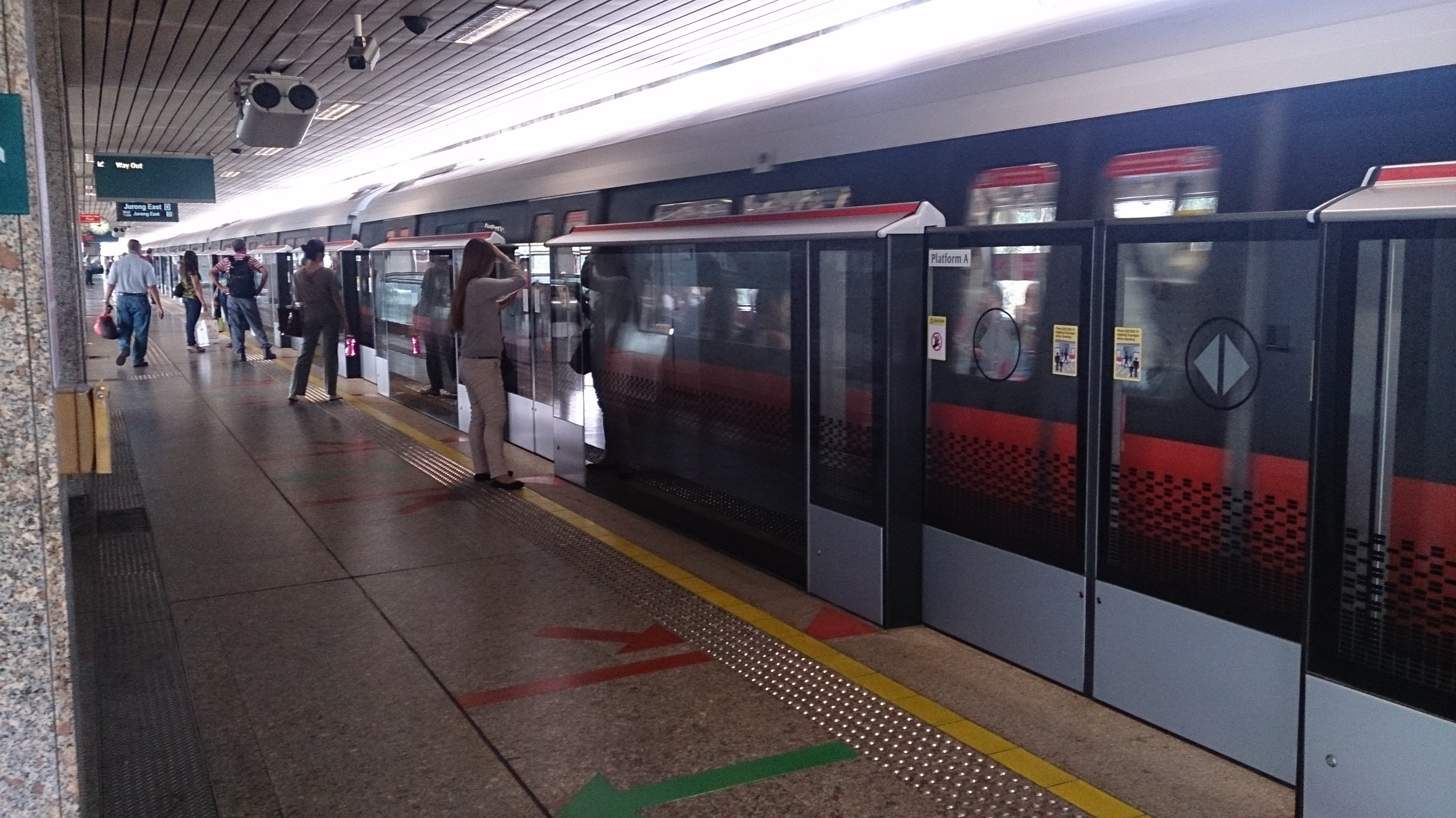 platform doors have been erected at "open" MRT stations after a spate of incidents involving people leaping onto the tracks.